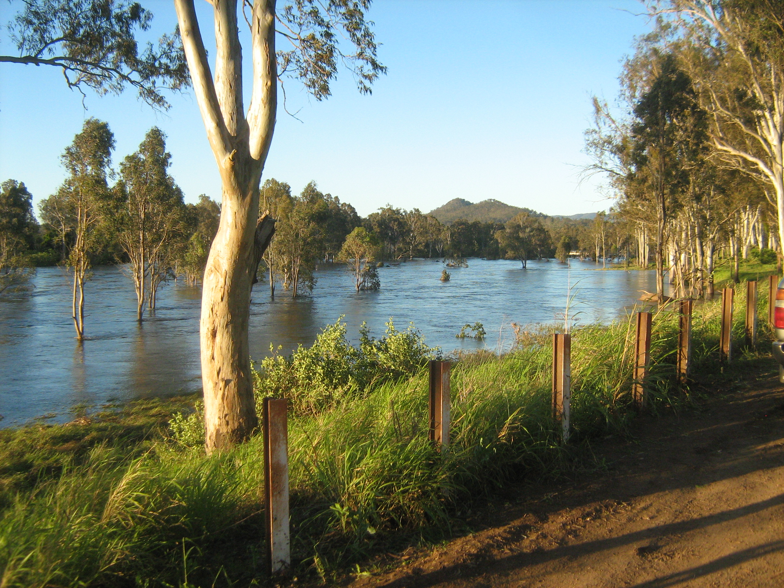 Brisbane River downstream from Wivenhoe Dam when the flood gates had been opened for all 5 radial spillway gates.